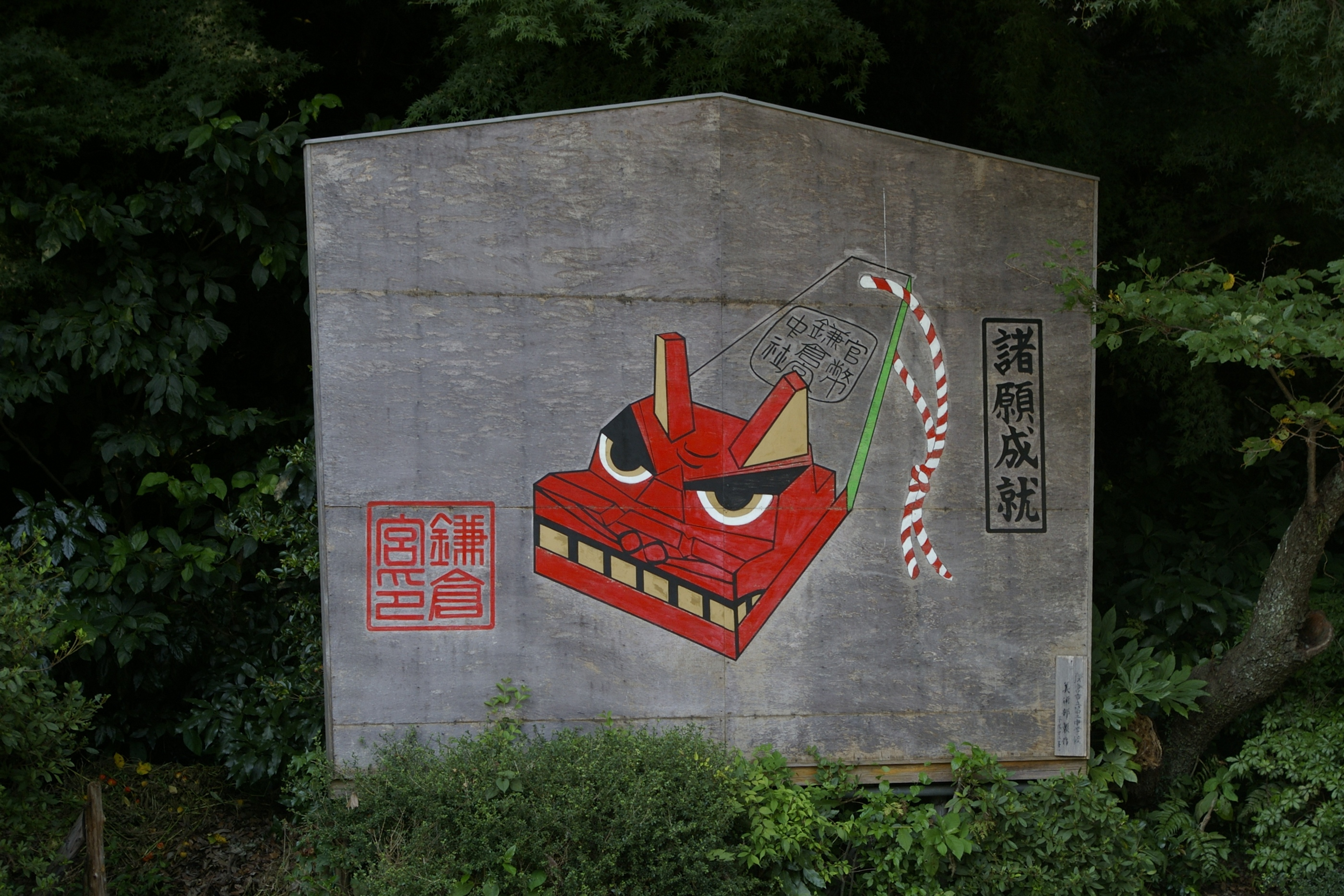 Wooden Plate in front of the shrine entrance with a painting of the Shishi-Gashira